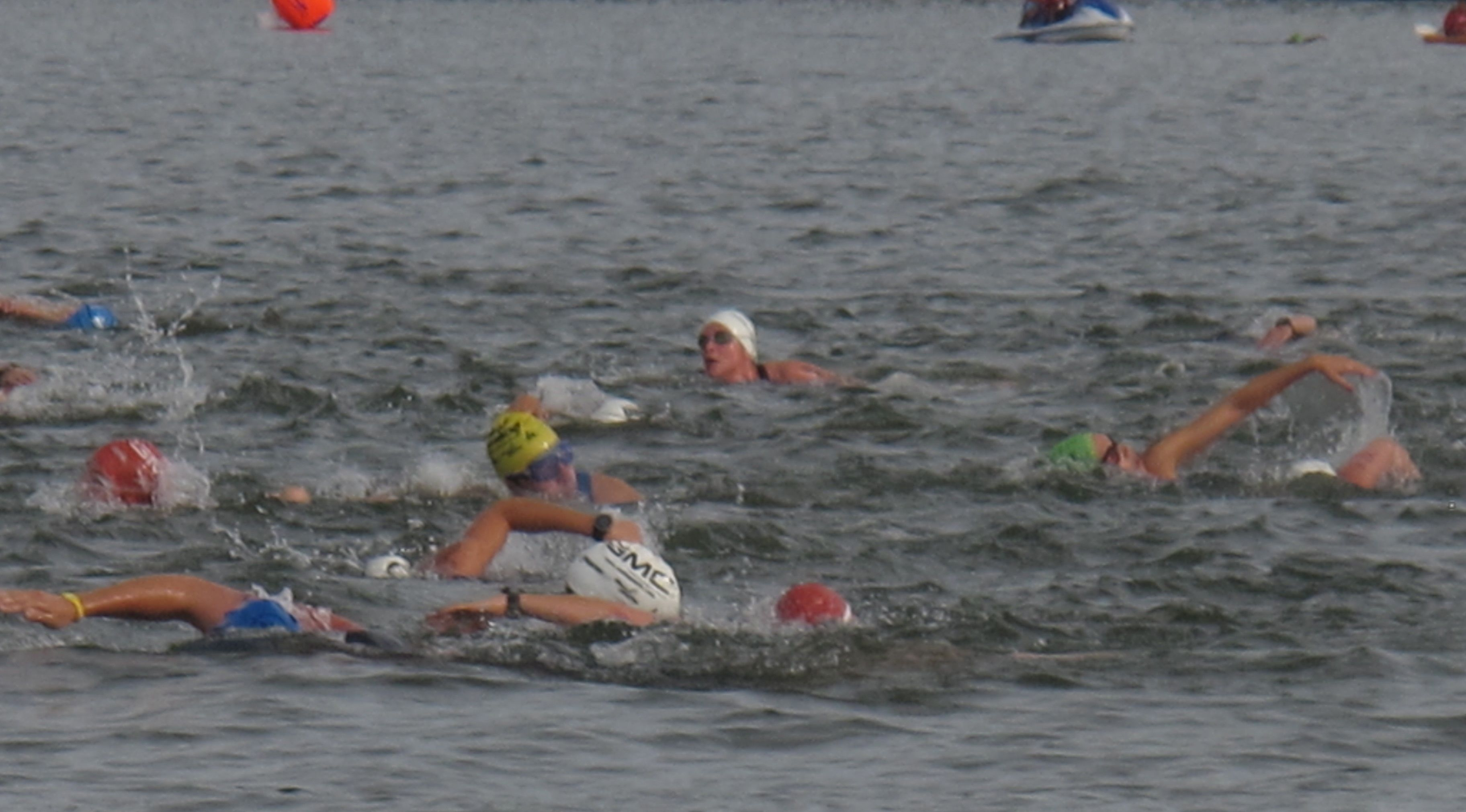 Triatlon Tequesquitengo 2011 Mexico